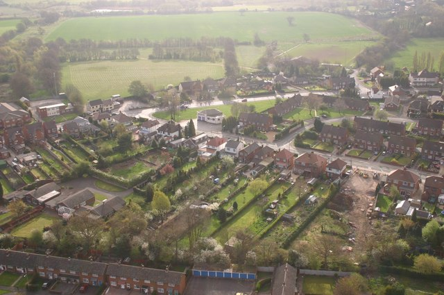 Junction of Hilton Lane and the A34. The junction is where the small shop like feature is. This photograph was taken from a hot air balloon.